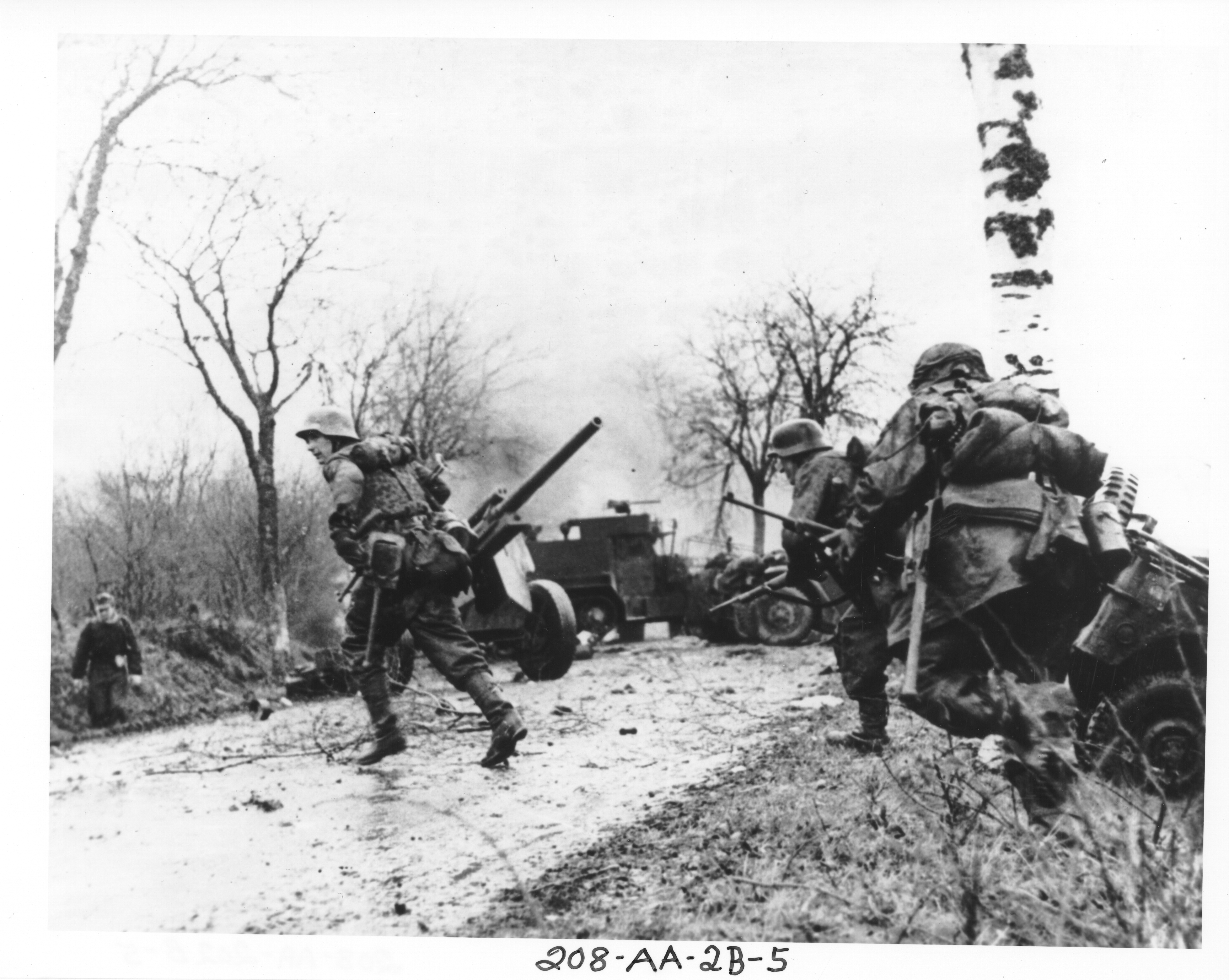 Original caption: “This photo from a captured Nazi shows German troops rushing across a Belgian road blocked with vehicles and armor during the enemy attack against the American Army which began Dec. 16th, 1944. Supreme Headquarters, Allied Expeditionary Force announced Dec. 23rd that a German armored column had reached the area of Marche and cut the Marche-Hotton Road. Hotton is 26 miles due south of Liege on the river Our the and Marche, 6 miles southwest of Hotton is 38 miles west of the Germany-Luxembourg border. More than 4,000 allied bombers and fighters blasted the Germans in and behind the battle area Dec. 23rd. Major aerial battles developed as the Luftwaffe came up in strength and 178 Nazi planes were shot down, 22 more probably downed, 29 damaged and 9 destroyed on the ground. American ground forces cut into the lower flank of the German penetration due north of Luxembourg at Mersch. Undated” The photograph was taken from a captured Nazi. Original version at NARA: Smaller, cropped version at Imperial War Museum